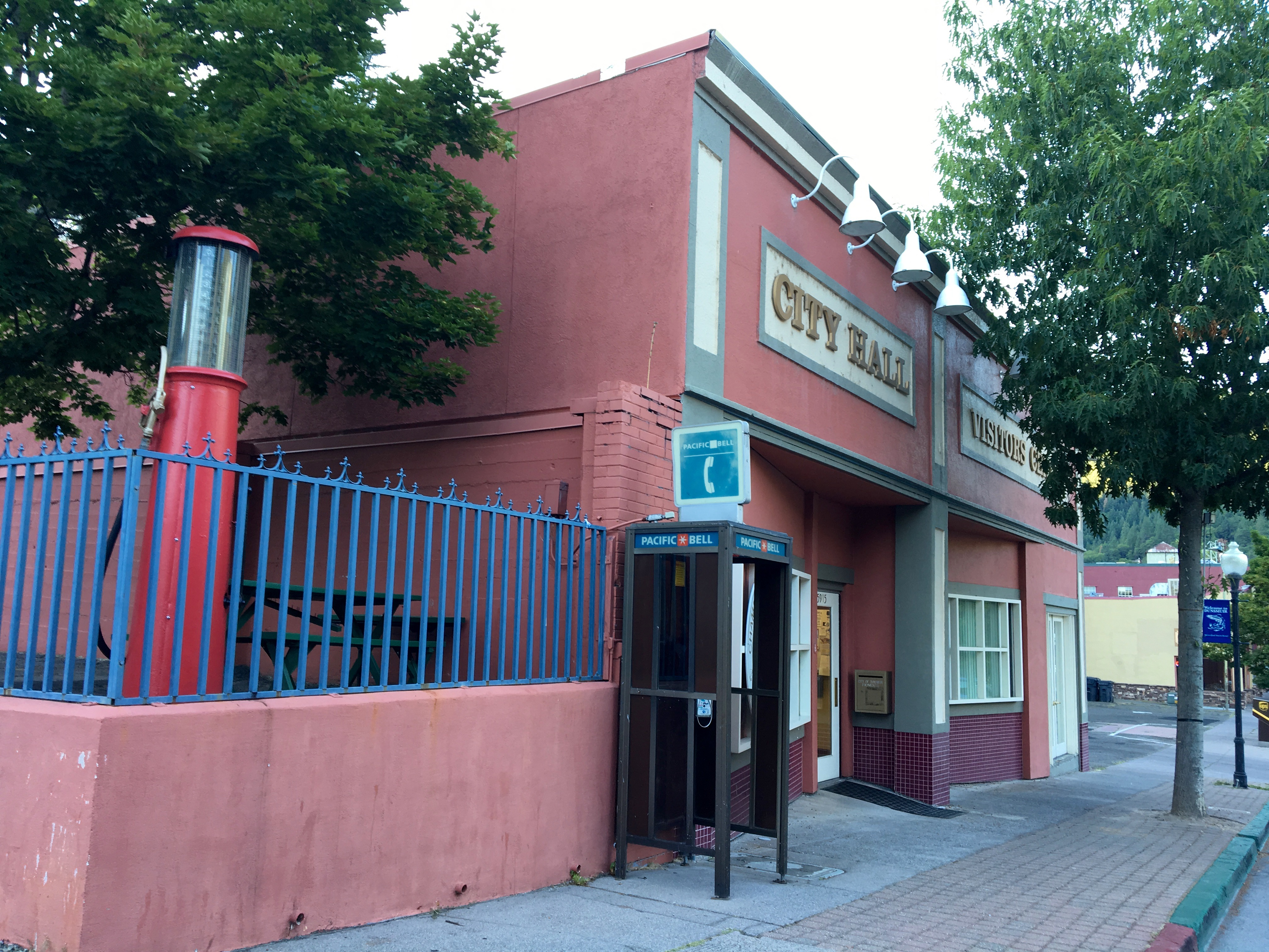 July 2016